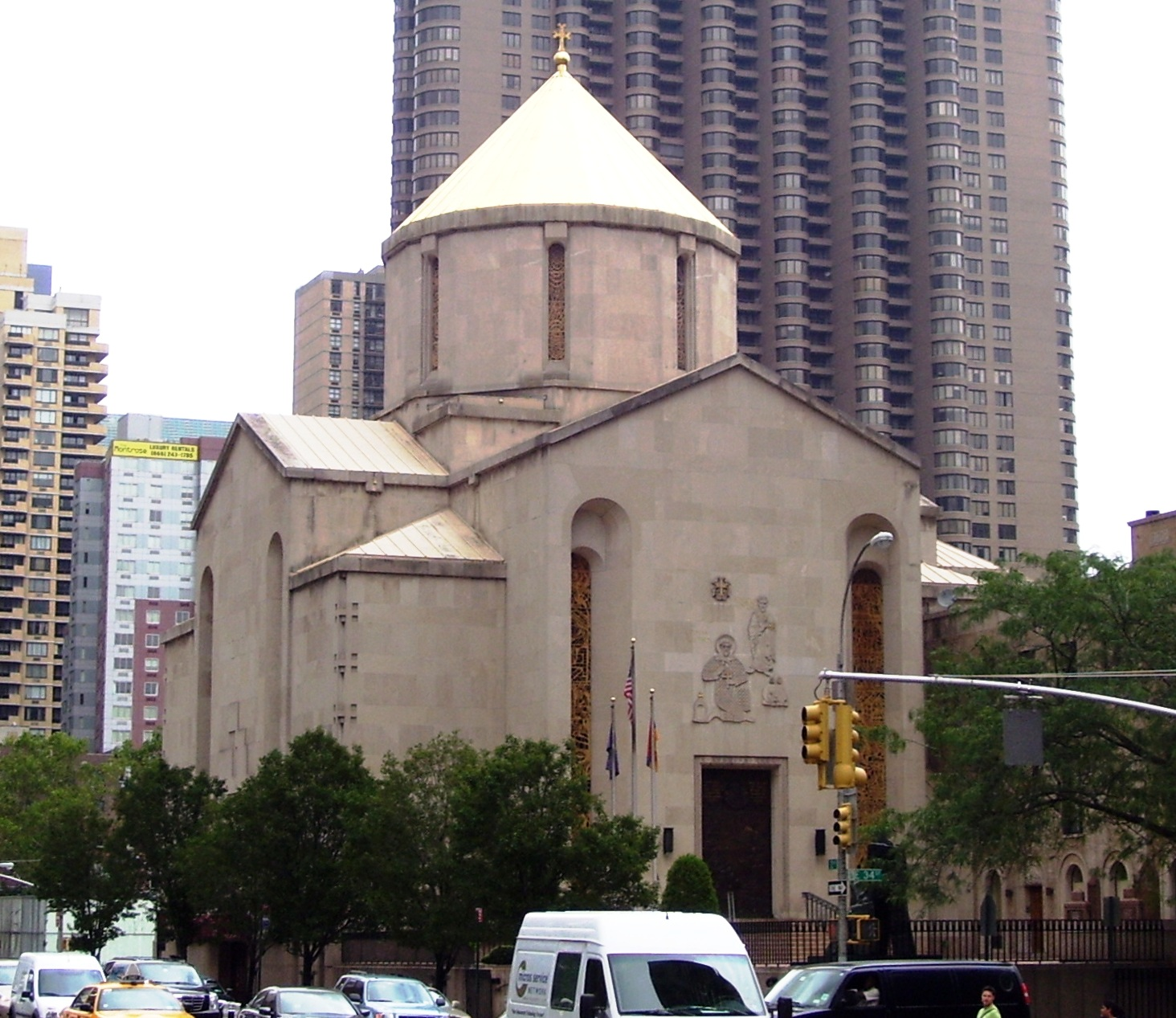 St. Vartan Armenian Cathedral, located at 620 Second Avenue at 34th Street, in the Kips Bay neighborhood of Manhattan, New York City, was built in 1966-1968 and designed by Steinmann & Cain.